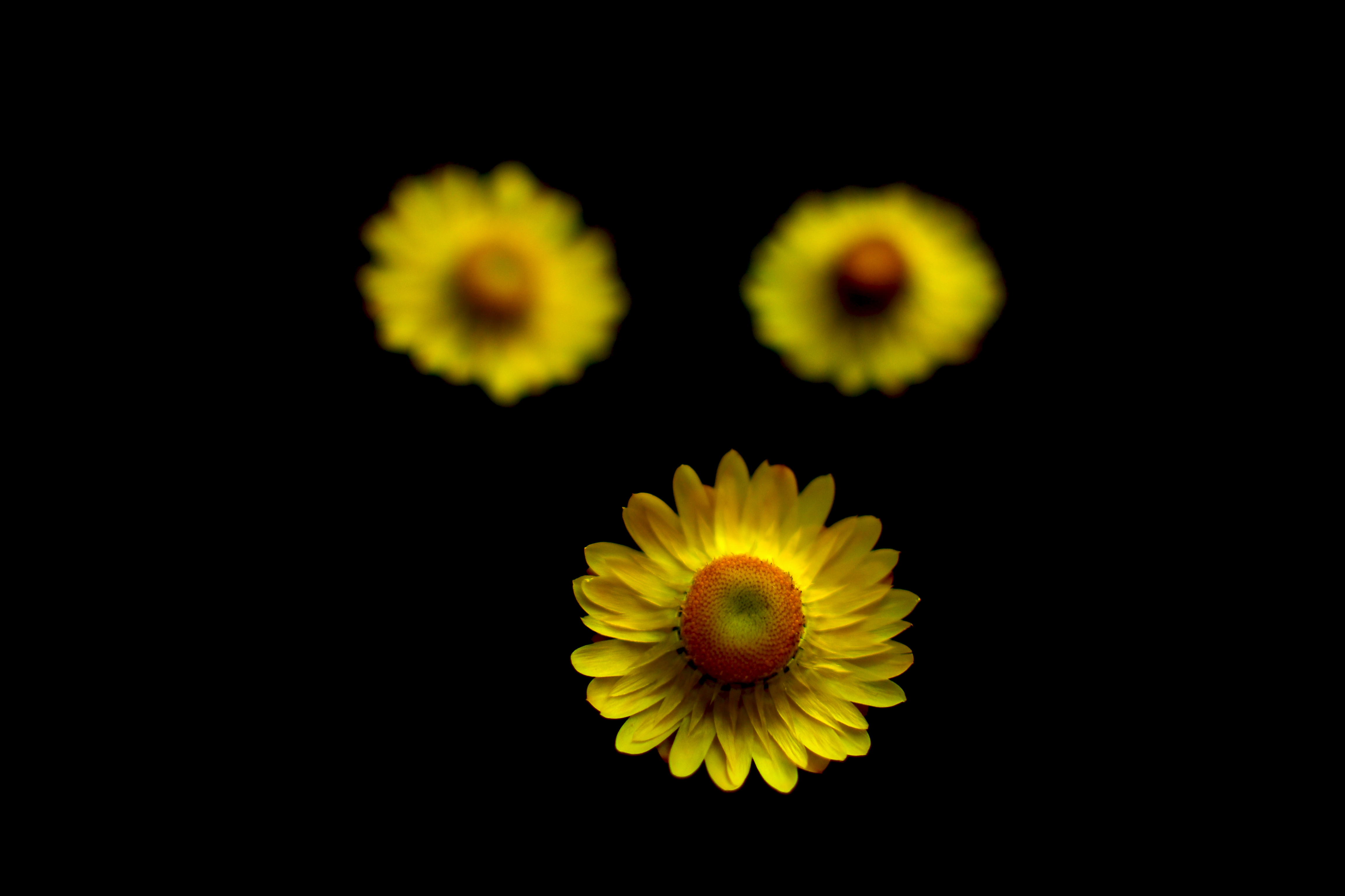 Xerochrysum bracteatum, commonly known as the golden everlasting or strawflower, is a flowering plant in the family Asteraceae native to Australia.